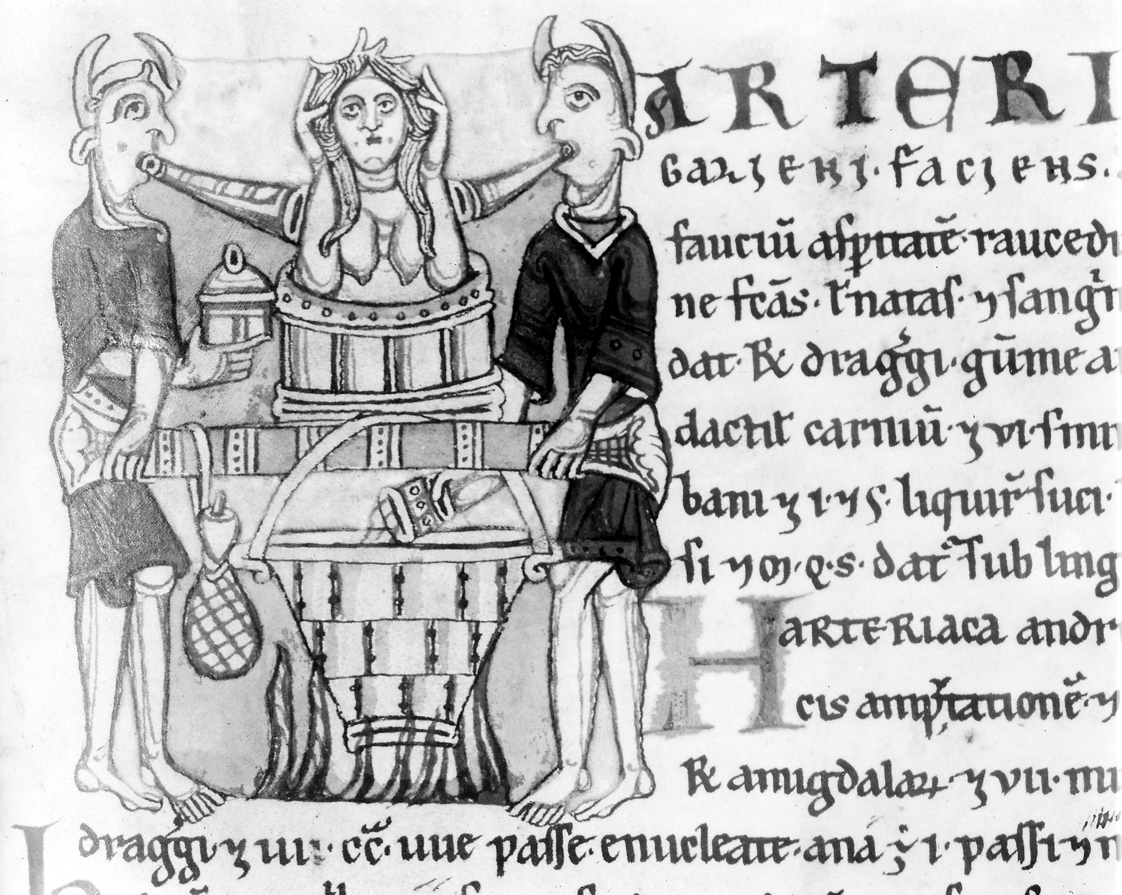 Initial letter illumination from 13th C manuscript in Basle. "A" Wellcome Images Keywords: History of Medicine; Claudius Galen